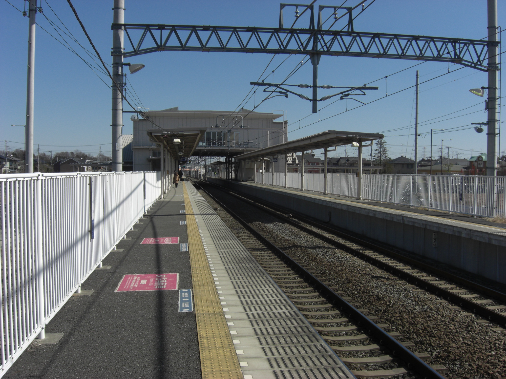 View of the platforms of Tsukinowa Station on the Tobu Tojo Line